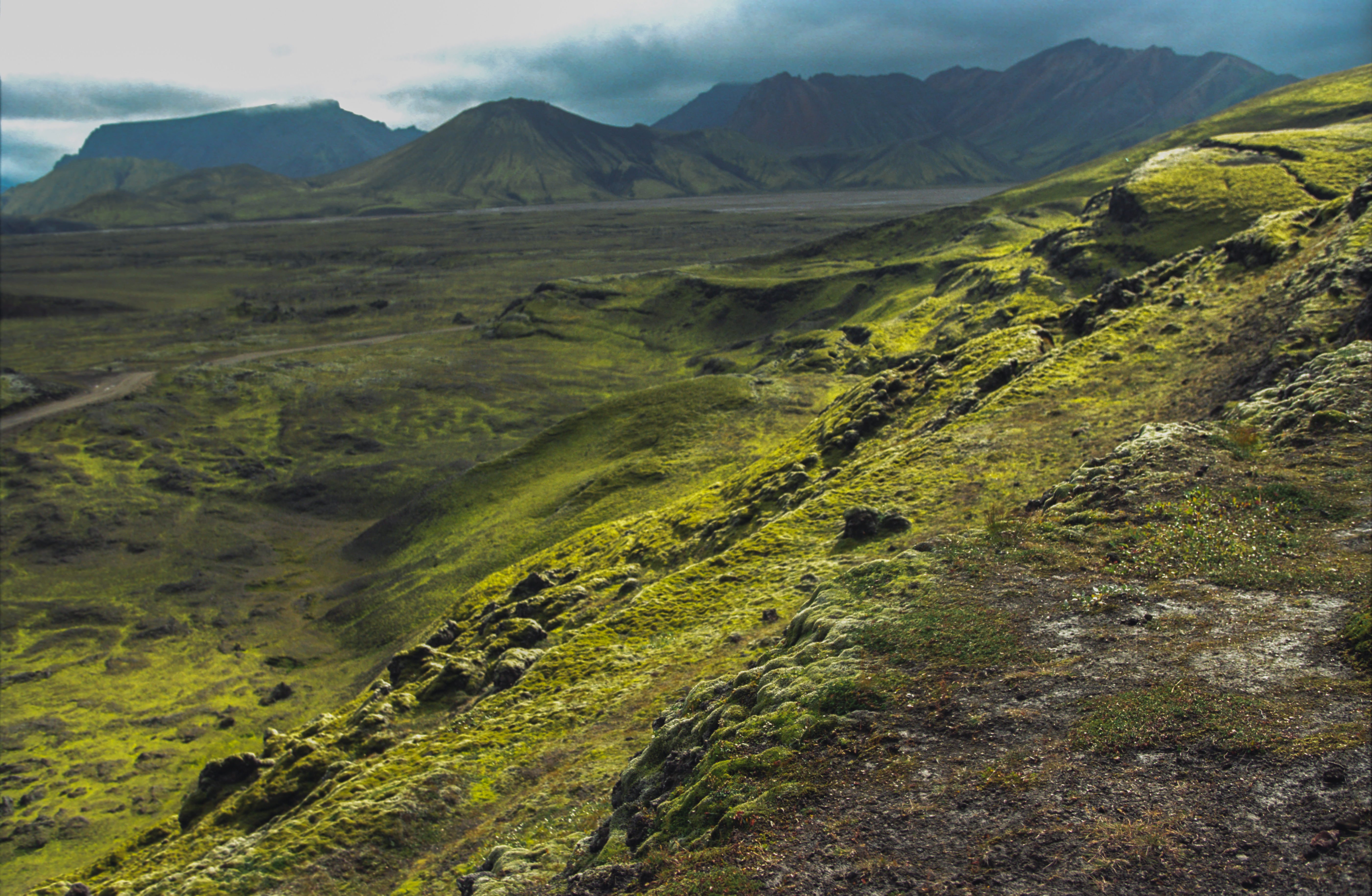 Fjallabaksleið nyrðri(F208) road, Iceland